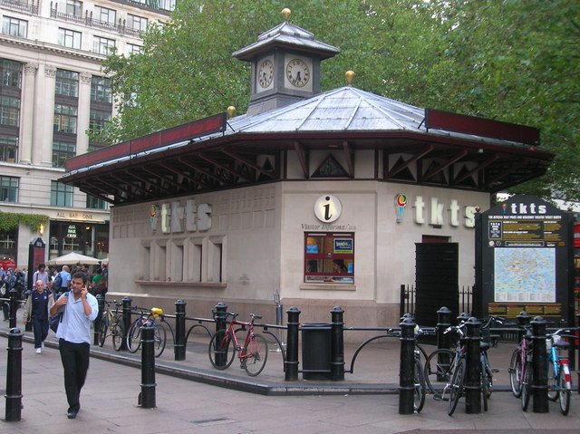 Ticket Booth, Leicester Square W1